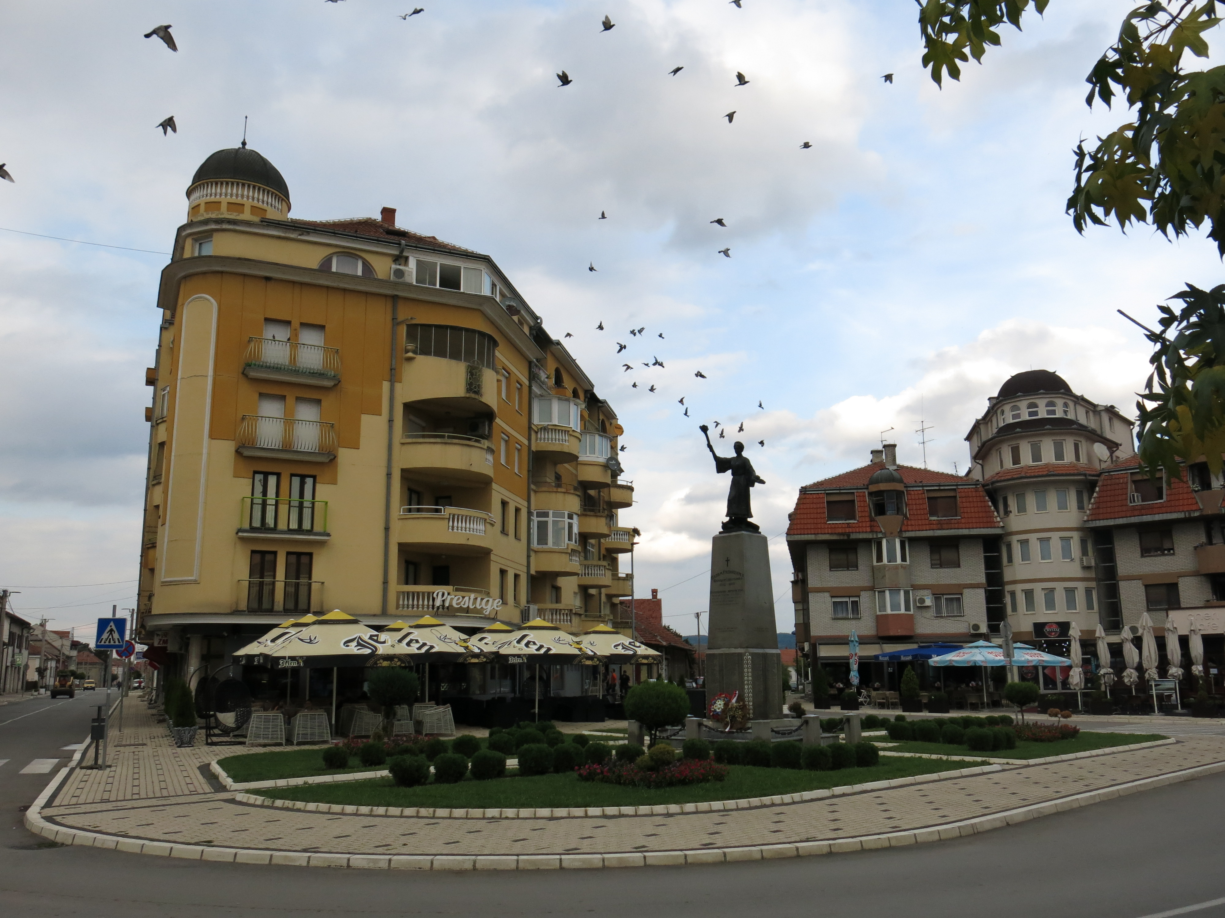 Monument to Mara Resavkinjia in Svilajnac, Serbia